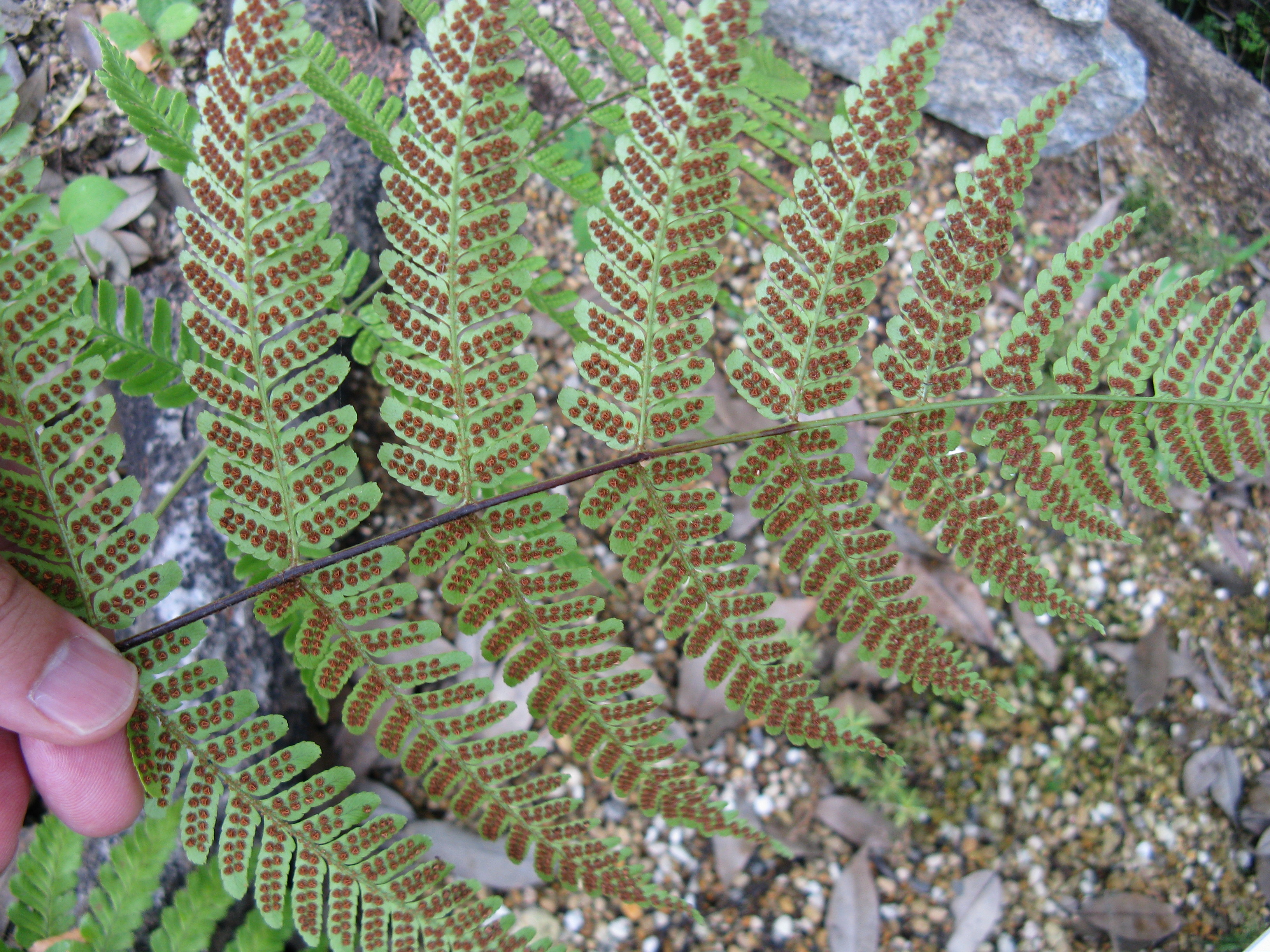 Dryopteris erythrosora